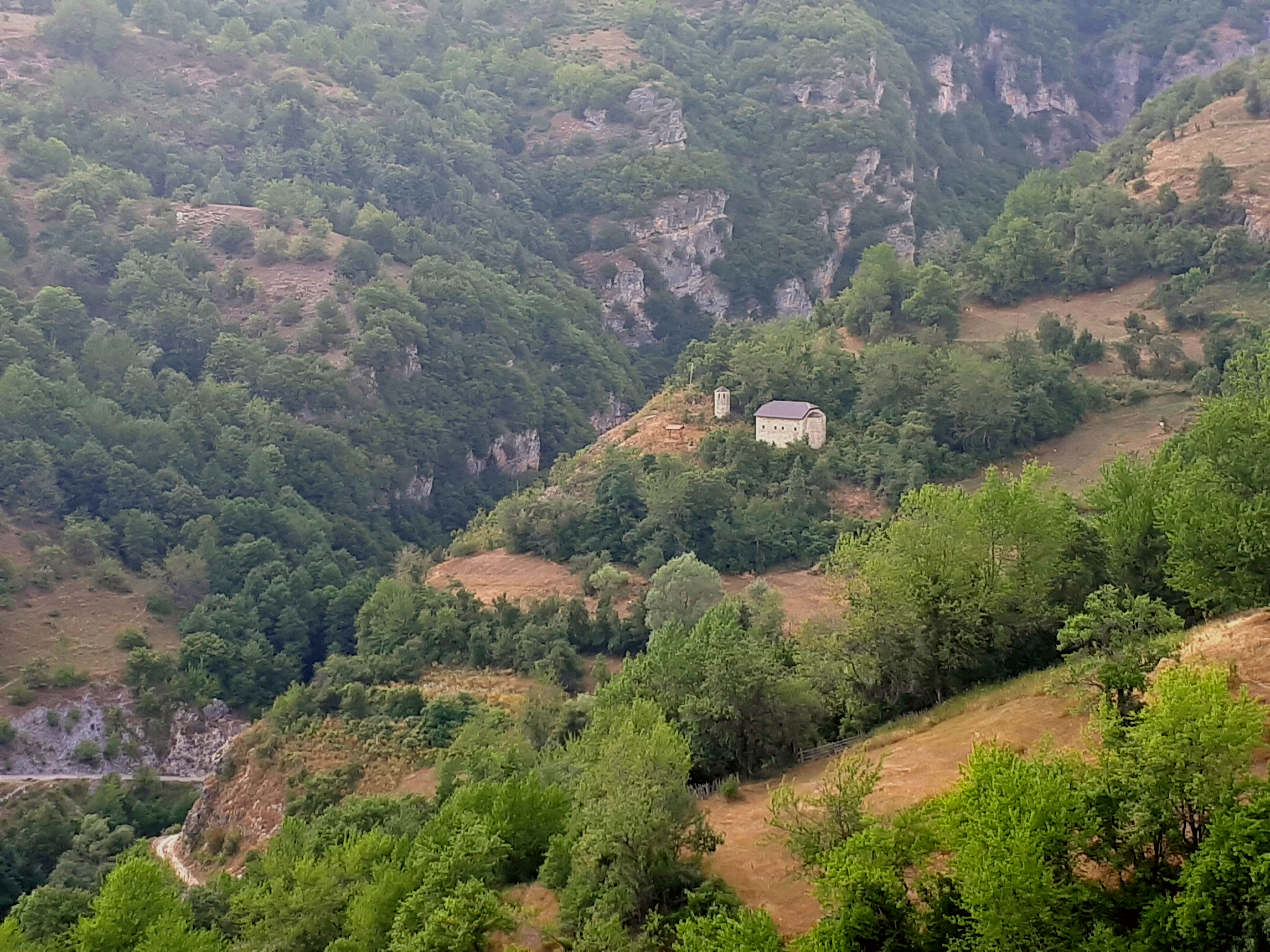 Taken during Wikiexpedition to Reka 2017